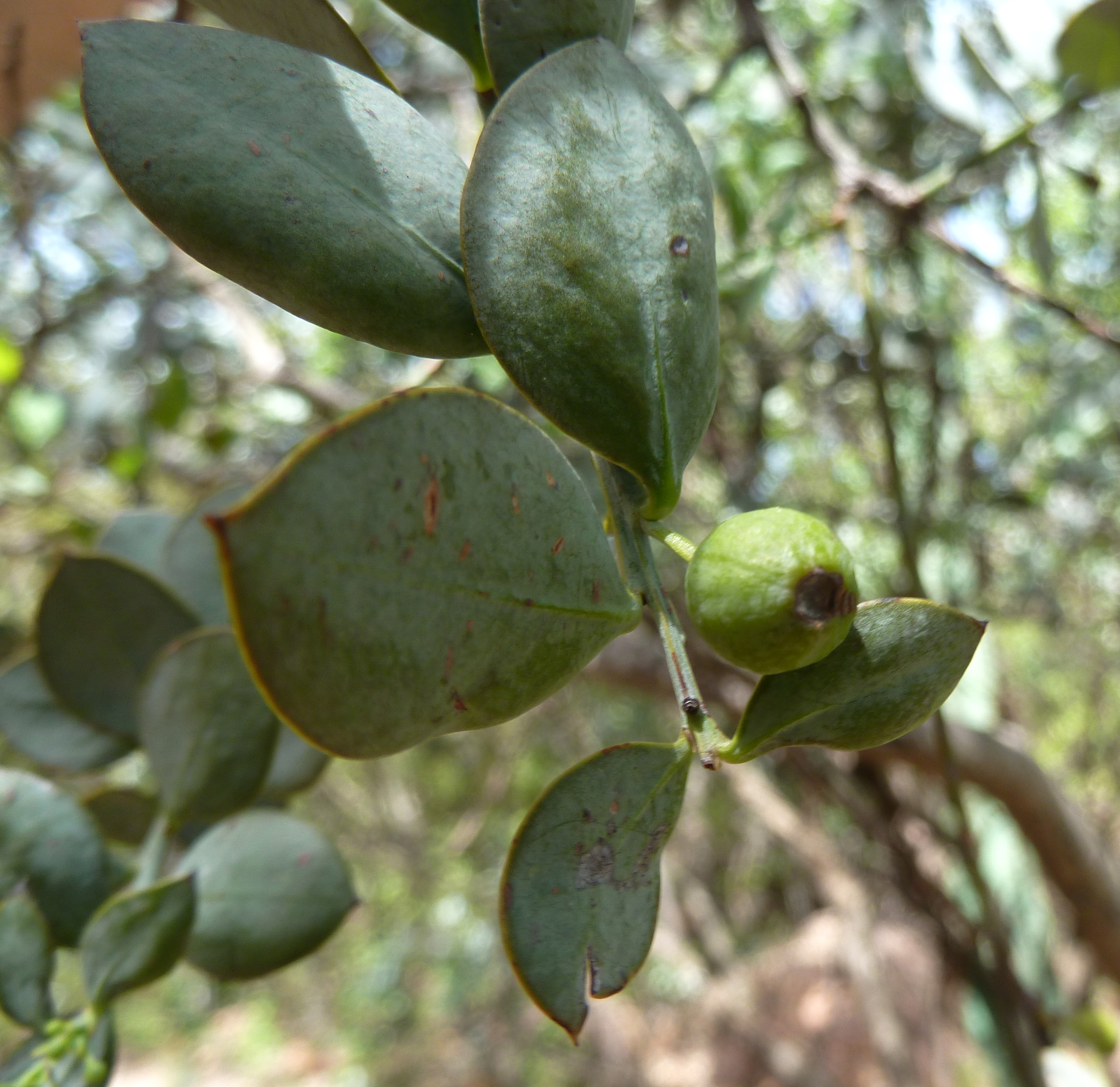 Foliage and fruit of a Transvaal sumach at the summit of a stony kopje at Seringveld near Pretoria, South Africa